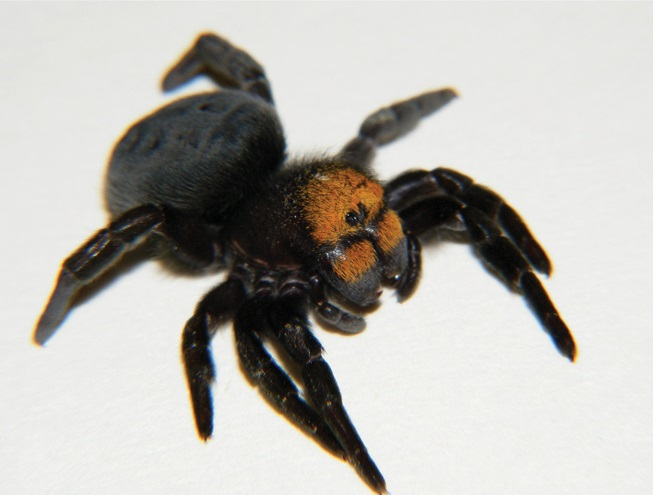 Eresus moravicus female (Misina-hegy, Pécs, Hungary)